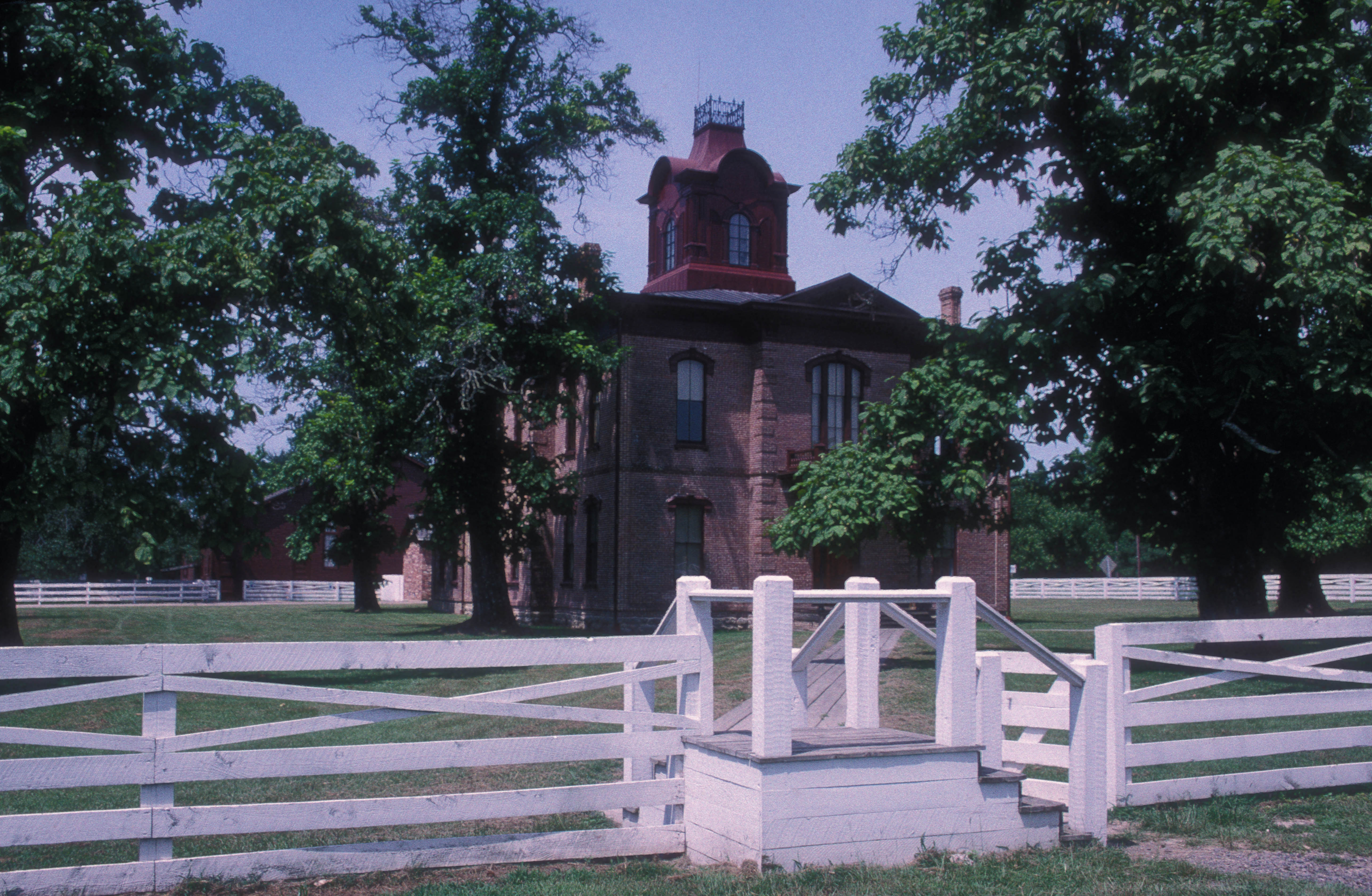 HEMPSTEAD COUNTY COURTHOUSE FROM 1874 AND NOW THE VISITOR CENTER